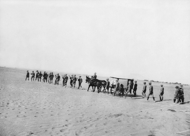 A British soldier's funeral, Egypt c1916